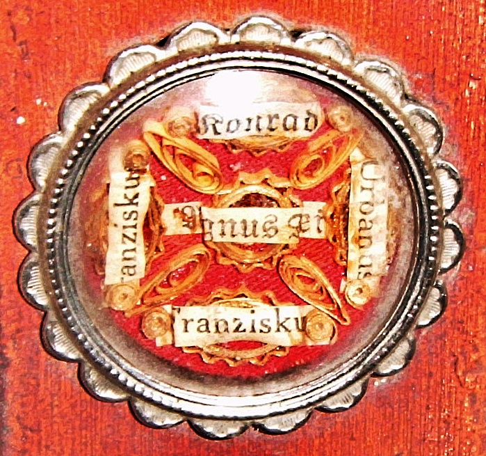 Fragment eines päpstlichen Agnus Dei, in einem Reliquiar von 1933 (Hl. Jahr)